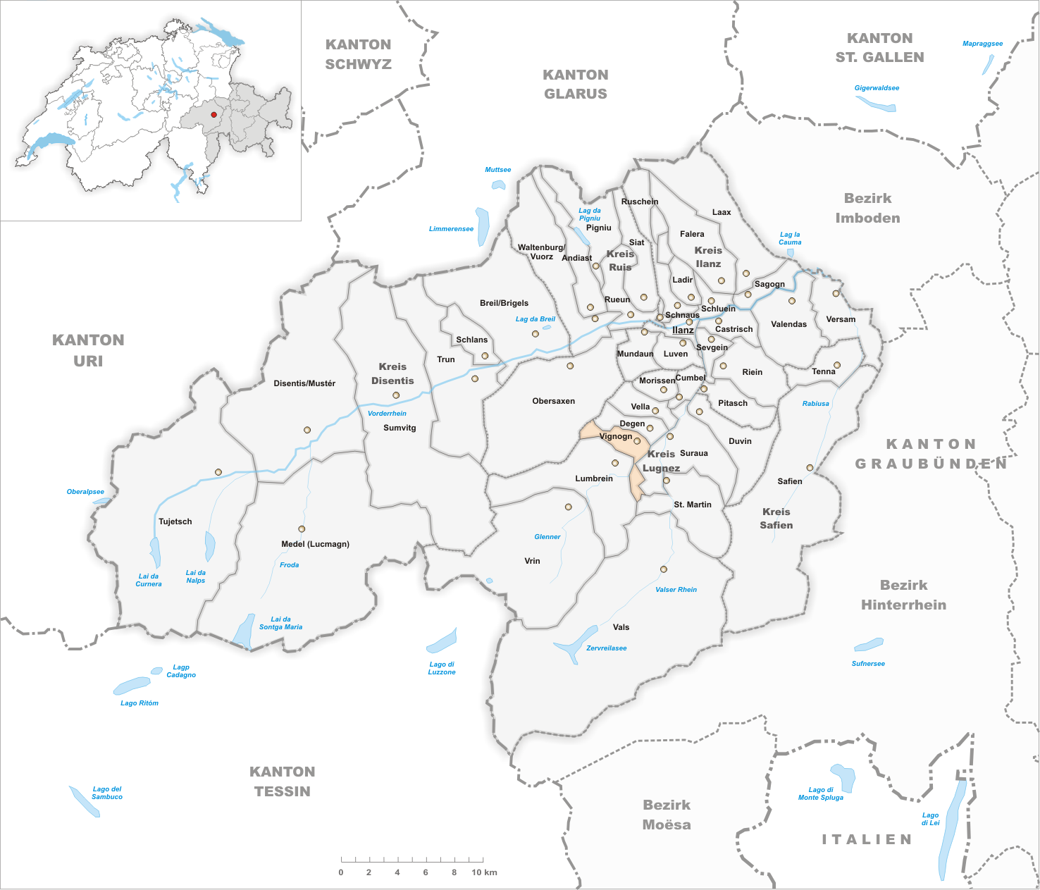 Municipality Vignogn